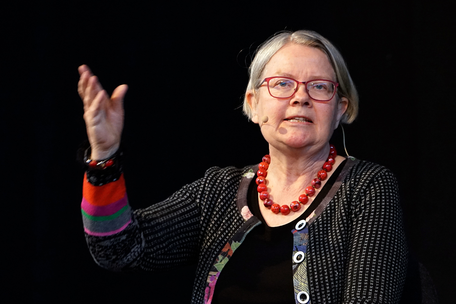 Annette Hoff - Danish historian, writer and museum curator - at the historic event "Historiske Dage 2019", Copenhagen, Denmark